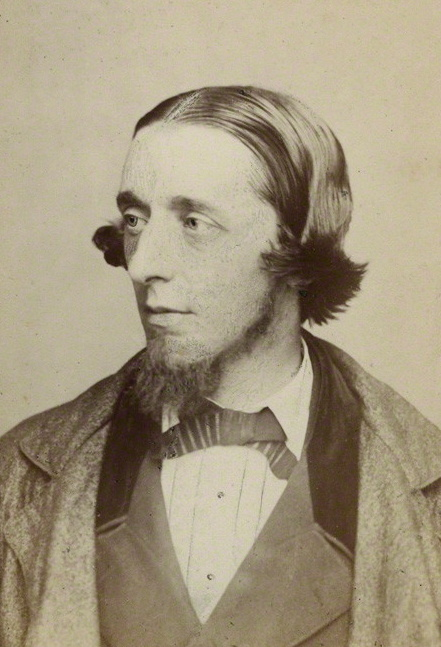 Portrait of sir James Stansfeld